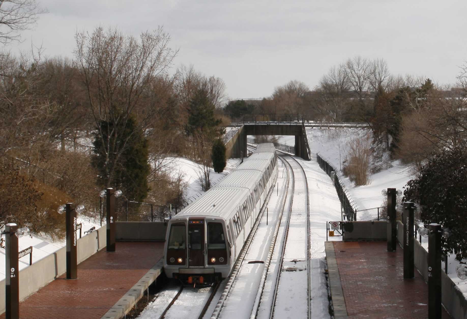 A train arriving at the Arlington Cemetery Metro station located in Arlington County, Virginia.